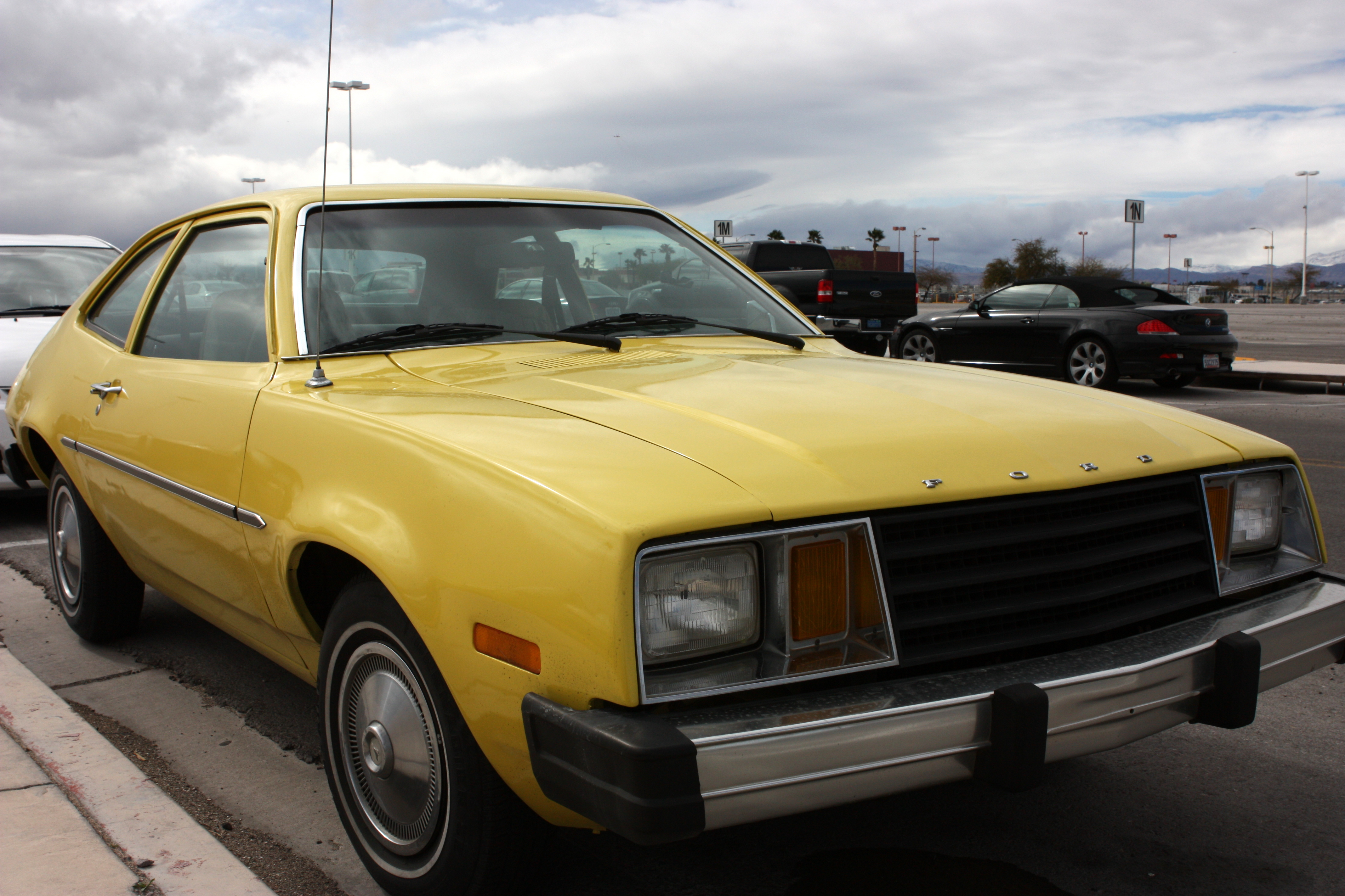 Noticed this stock yellow Ford Pinto in the airport parking lot in Las Vegas. Vehicle exterior was in excellent condition.